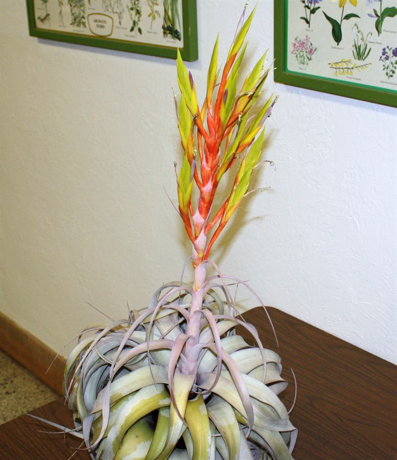 Tillandsia xerographica with inflorescence